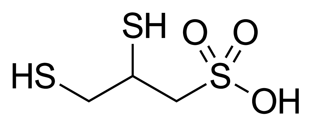 en:2,3-Dimercapto-1-propanesulfonic acid; structure copied from [1] as third image and enlarged.